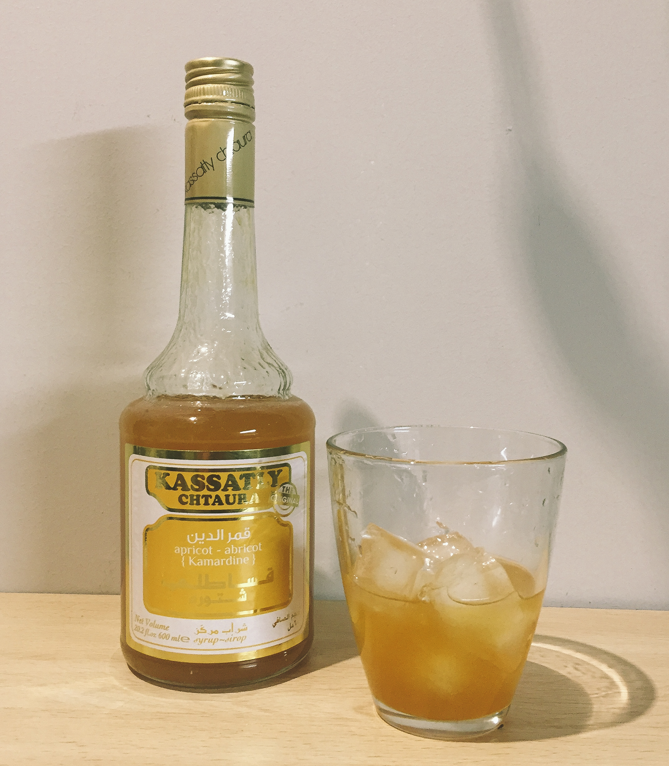 Arabic drink called 'Qamar Al-Din', 'Qamar Ad-Din' or 'Kamaraddin'